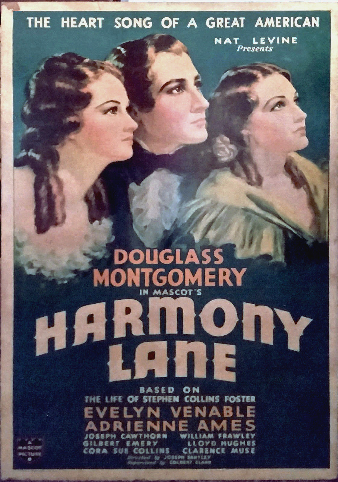 Poster for the 1935 film Harmony Lane. There are no copyright marks on the item. At lower left is Country of Origin USA.